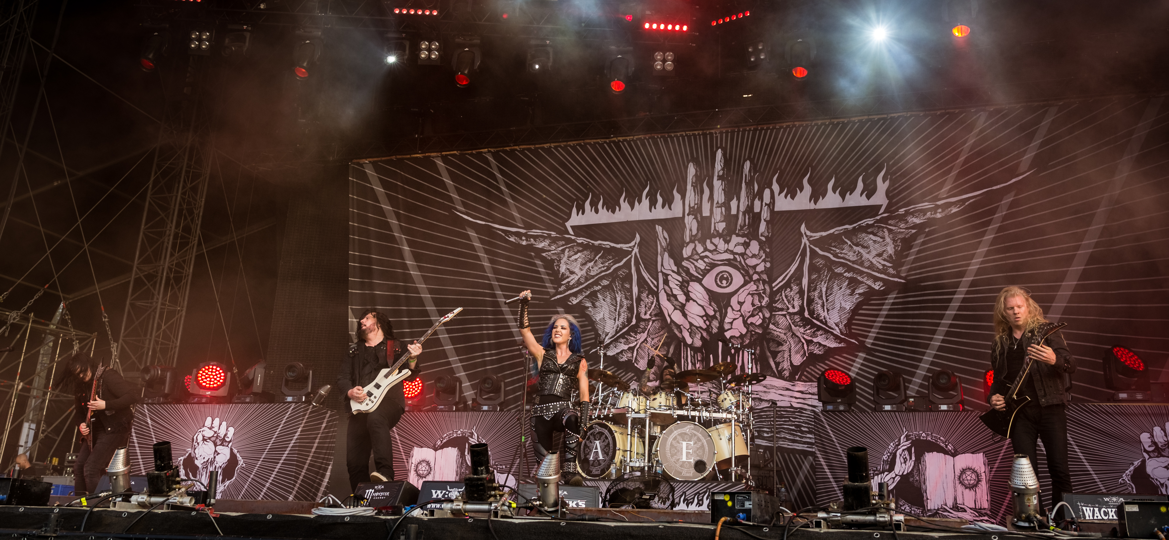 Arch Enemy - Wacken Open Air 2018